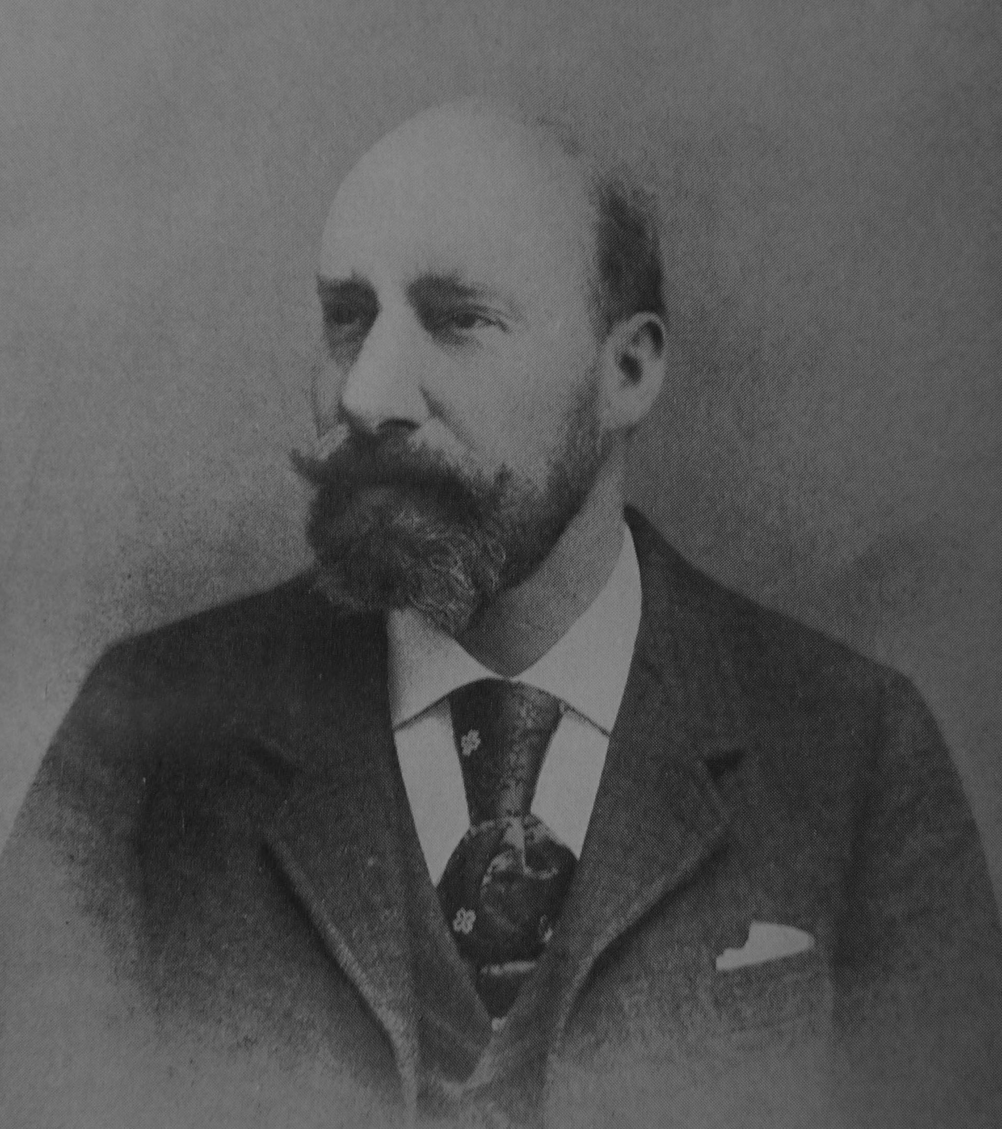 Portrait of the Swiss publisher Emanuel Wackernagel